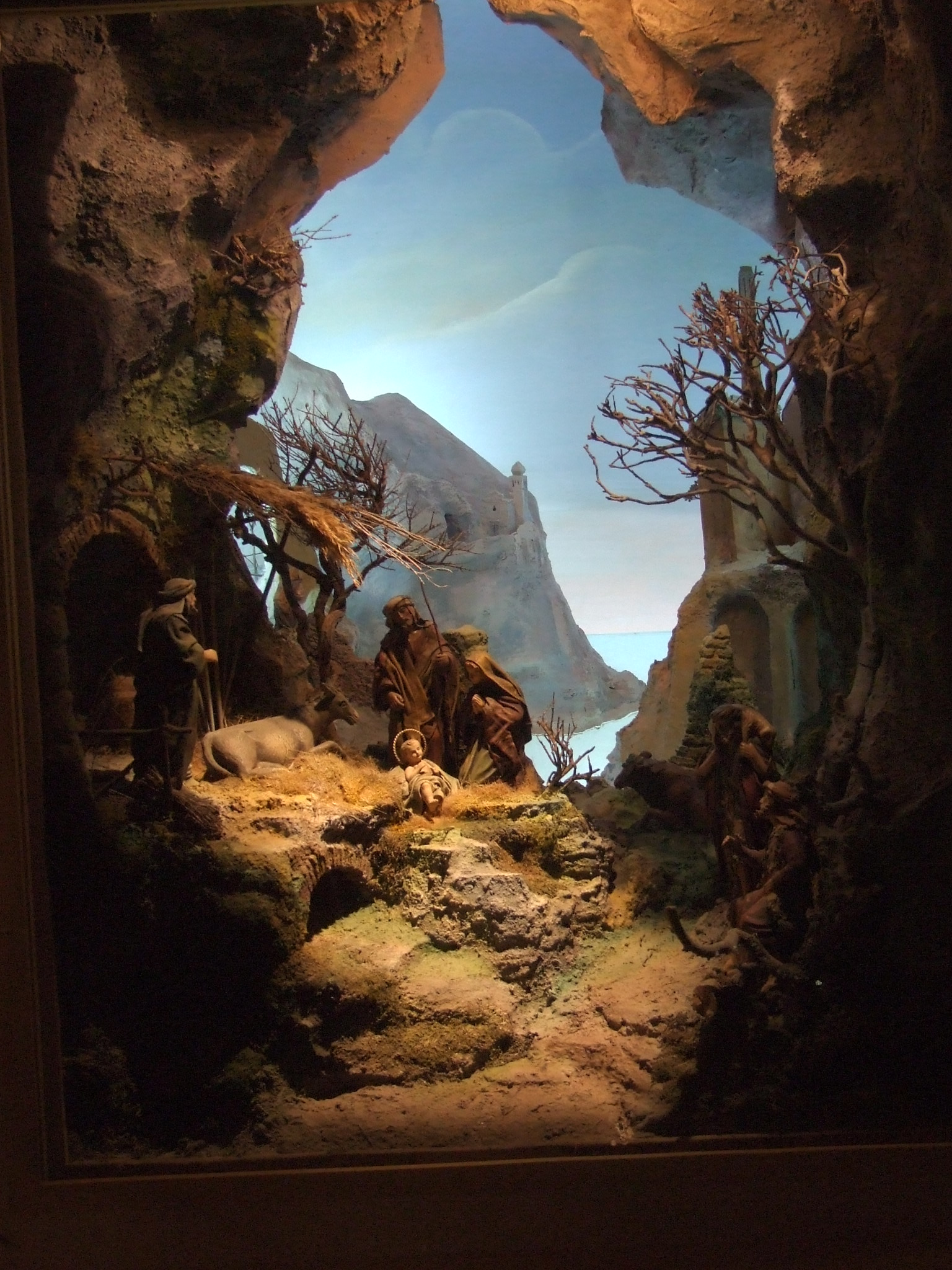 Neopolitan crib in Krzysztofory museum near Main Squere of Cracow - 2006